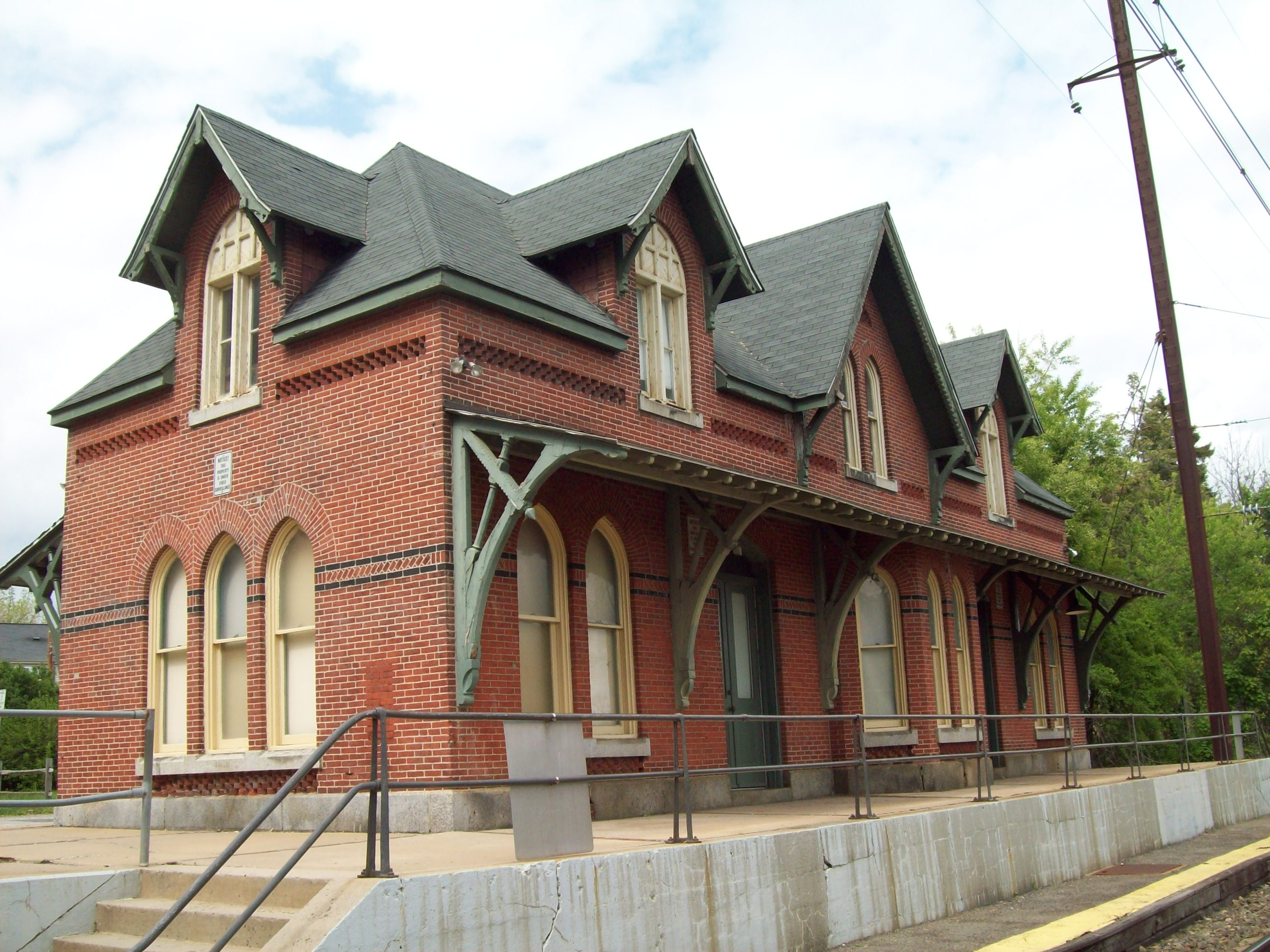 Newark Delaware Rail Station, April 2010